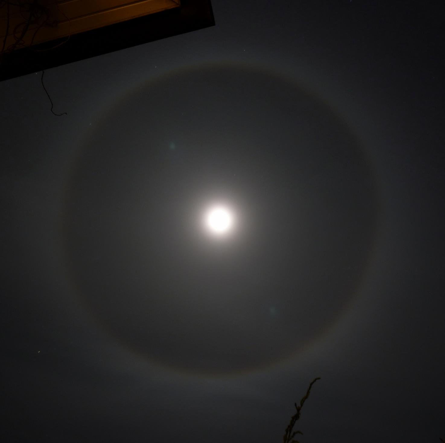 22° halo or Circumscribed halo around the Moon. Katovice (nearby Strakonice), Czech Republic. Česky: Malé halo kolem Měsíce. Katovice u Strakonic.